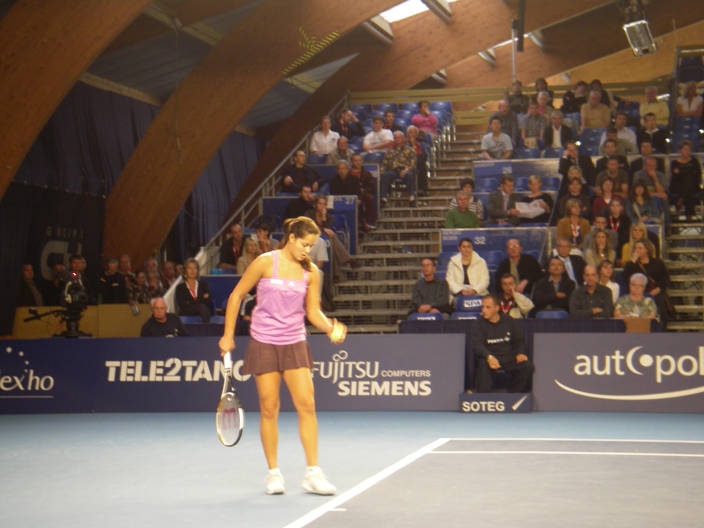 Ana Ivanovic. Luxembourg September 2007